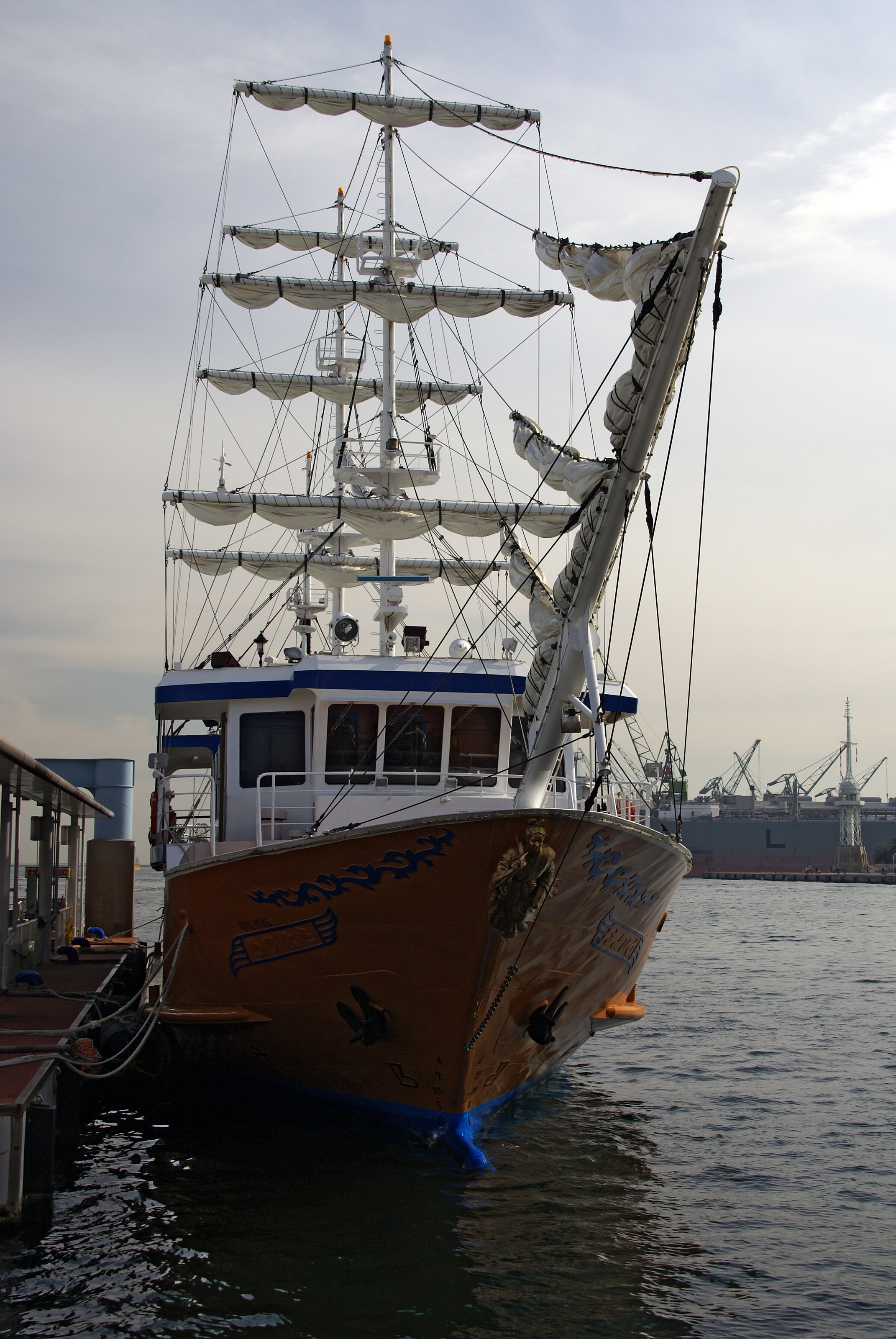 "Royal Prince" who anchors at "Nakatottei Central Terminal" of the Kobe harbor ( Kobe, Hyogo, Japan)